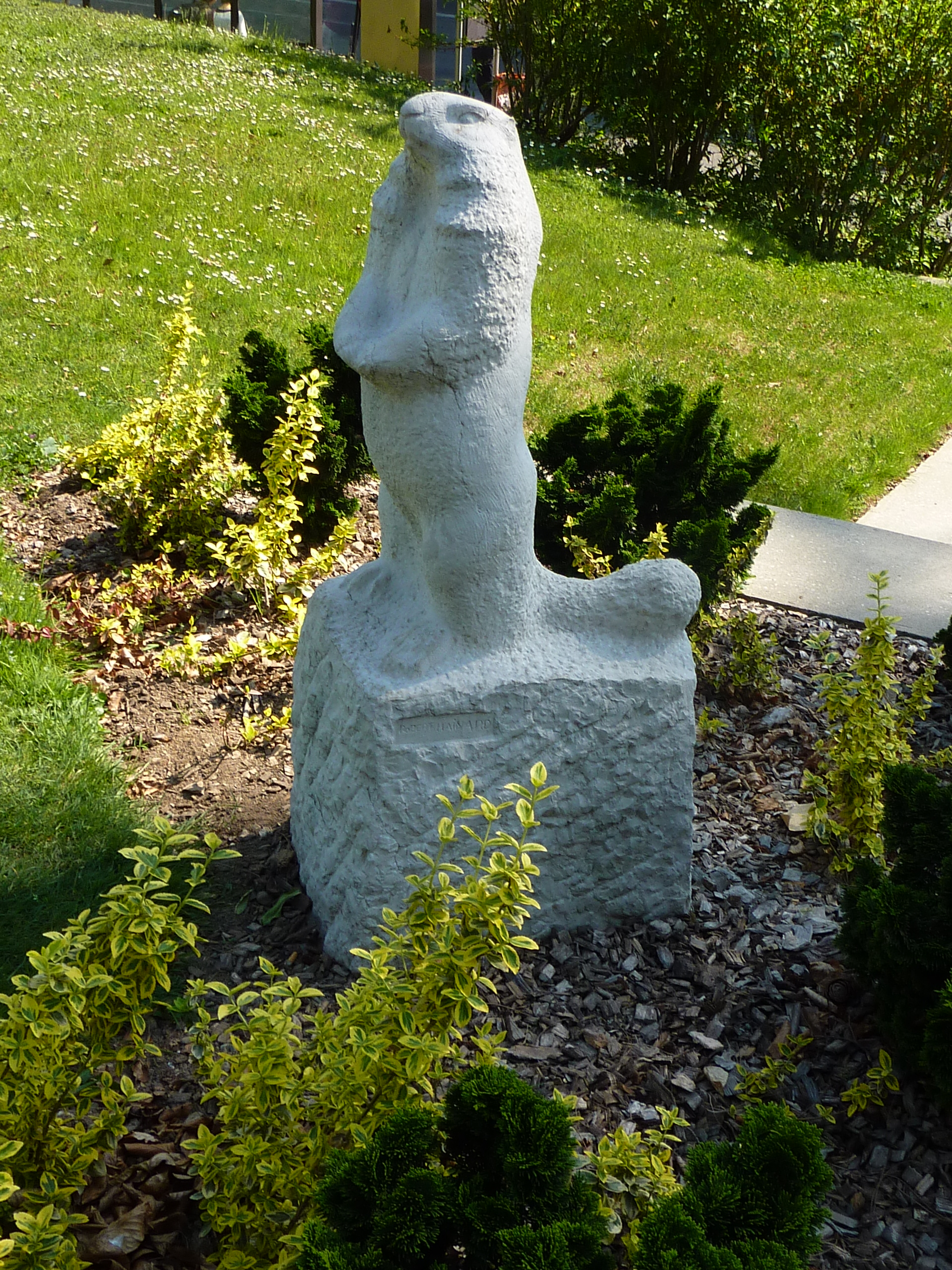 Parc de Malagnou in Geneva, Switzerland